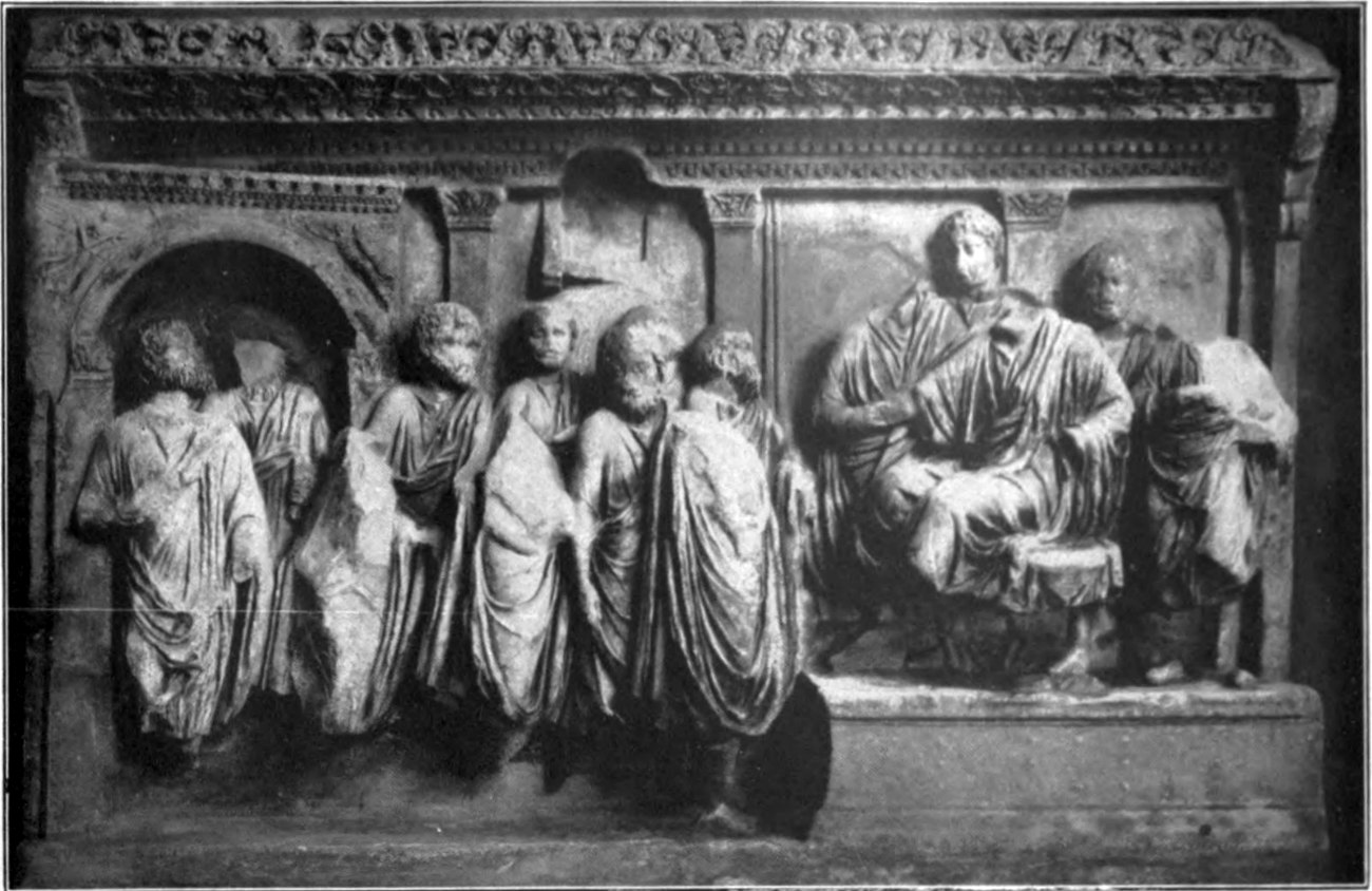 Ancient Roman relief showing the presentation of Caracalla to the Senate.